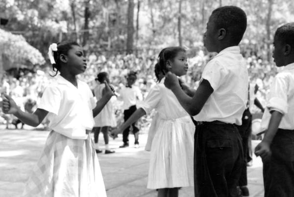 Local call number: F8896151 Title: Members of Carver School playing a game called "zoodio zoodio" at the Florida Folk Festival: White Springs, Florida Date: May 1959 General note: Zoodio is an African-American game with singing. The game, according to research, was often taught at Bible Schools. The game is played with at least eight people in an open space: Choose a partner; stand facing your partner; cross your arms in front of your waist and take your partners right hand in your left hand (and vice versa). Slightly bend your knees like you are riding a bicycle and move your partner's arms back and forth to the beat in a scissors motion while sing/chanting the rhyme. On the words "Step back, Sally," each partner jumps back four times to the beat (or, if the group agrees before hand, back and forth to the beat). On the words, "Walking down the alley," the individual partners strut to the beat, each finding a new partner. The song then begins again. The words to the song that accompanies the game are: Here we go Zoodio, Zoodio, Zoodio Here we go Zoodio, All night long; Step back, Sally, Sally, Sally, Step back, Sally All night long; Walkin through the alley, alley, alley, Walkin through the alley, All night long (repeat as many times as desired). Photographer: Robert R. Leahey Physical descrip: 1 photoprint - b&w - 4 x 5 in. Series Title: Folklife Collection Repository: State Library and Archives of Florida, 500 S. Bronough St., Tallahassee, FL 32399-0250 USA. Contact: 850.245.6700. Persistent URL